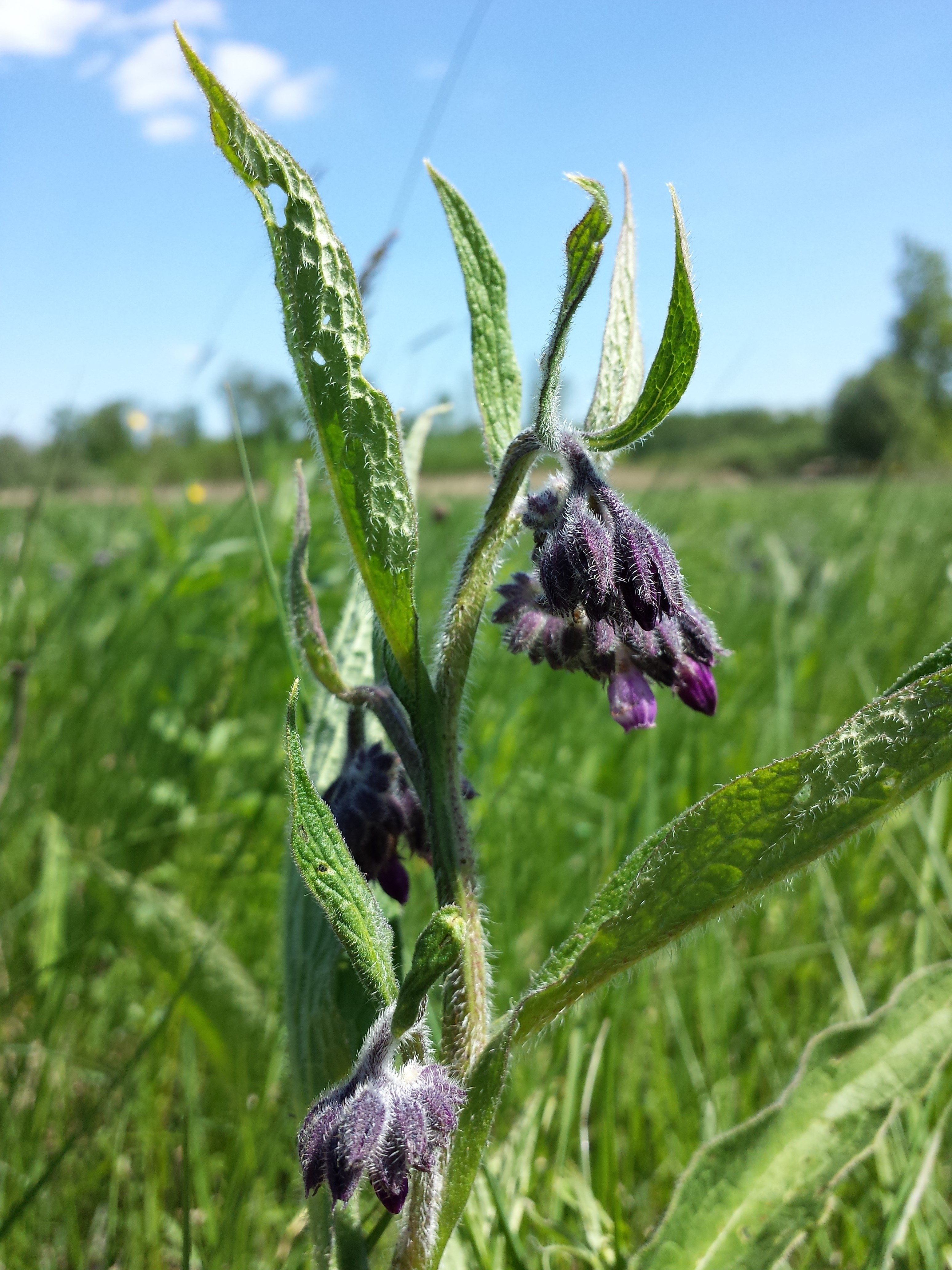 Florescence Taxon: Symphytum tanaicense (sensu Fischer et al. EfÖLS 2008 ISBN 978-3-85474-187-9; det. M. A. Fischer 2014-05-04) Location: Ringelsdorf, district Gänserndorf, Lower Austria - ca. 150 m a.s.l. Habitat: meadows within flood plain